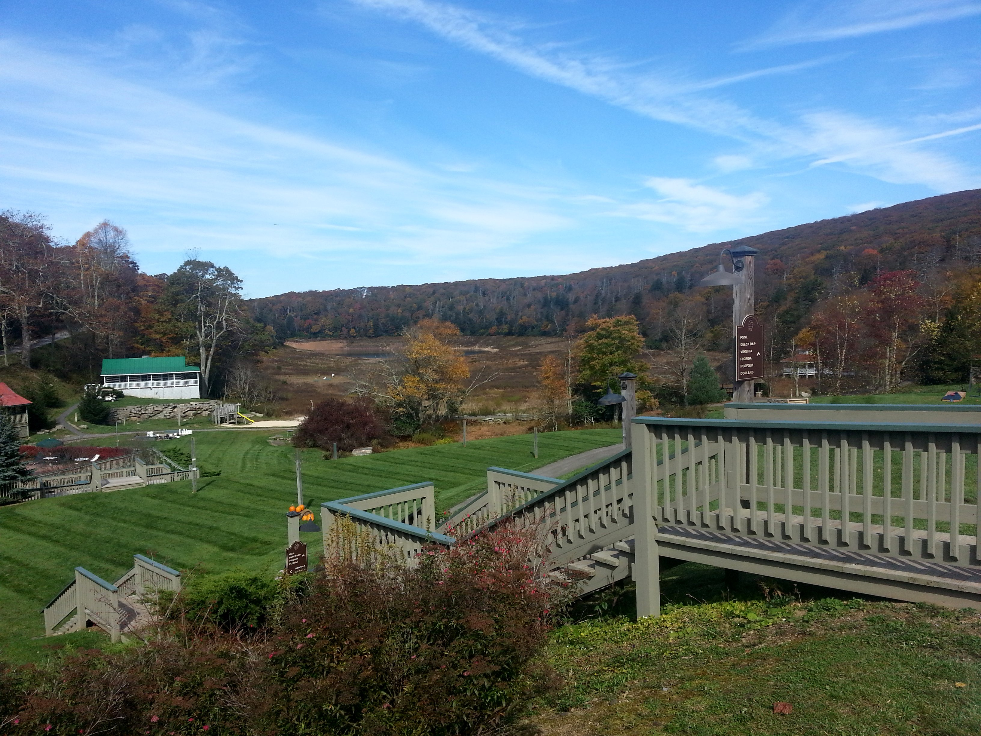 View of the lake from the main building of the Mountain Lake Mountain Lake Lodge, Mountain Lake, Virginia.